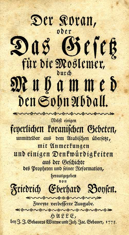 Title page of the german translation of the Qur'án: „Der Koran, oder Das Gesetz für die Moslemer, durch Muhammed den Sohn Abdall“ by Friedrich Eberhard Boysen 1775.